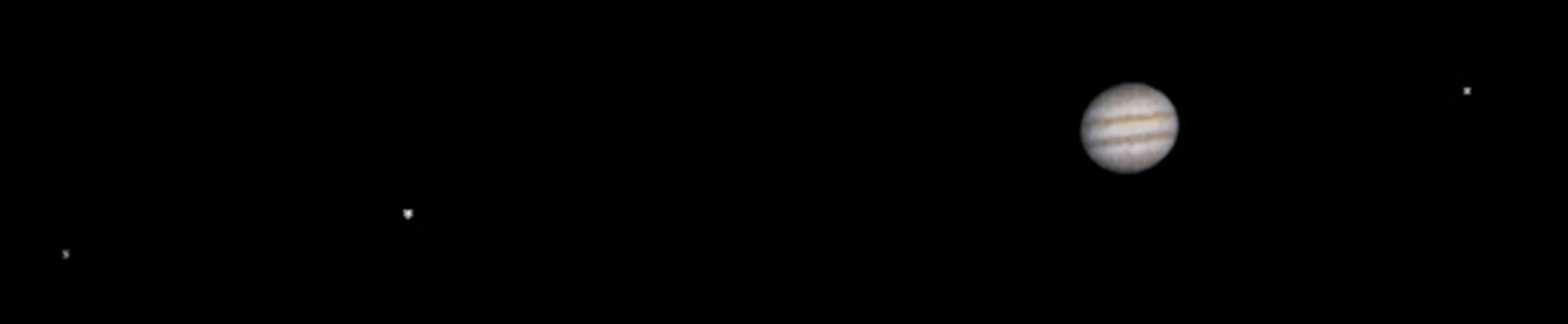 When Galileo first turned his telescope toward Jupiter four centuries ago, he saw that the giant planet had four large satellites, or moons. These, the largest of dozens of moons that orbit Jupiter, later became known as the Galilean satellites. The larger two, Callisto and Ganymede, are roughly the size of the planet Mercury; the smallest, Io and Europa, are approximately the size of Earth's Moon. This MGS MOC image, obtained from Mars orbit on 8 May 2003, shows Jupiter and three of the four Galilean satellites (from left): Callisto, Ganymede, and Europa. At the time, Io was behind Jupiter as seen from Mars, and Jupiter's giant red spot had rotated out of view. This image has been specially processed to show both Jupiter and its satellites, since Jupiter, at an apparent magnitude of -1.8, was much brighter than the three satellites.